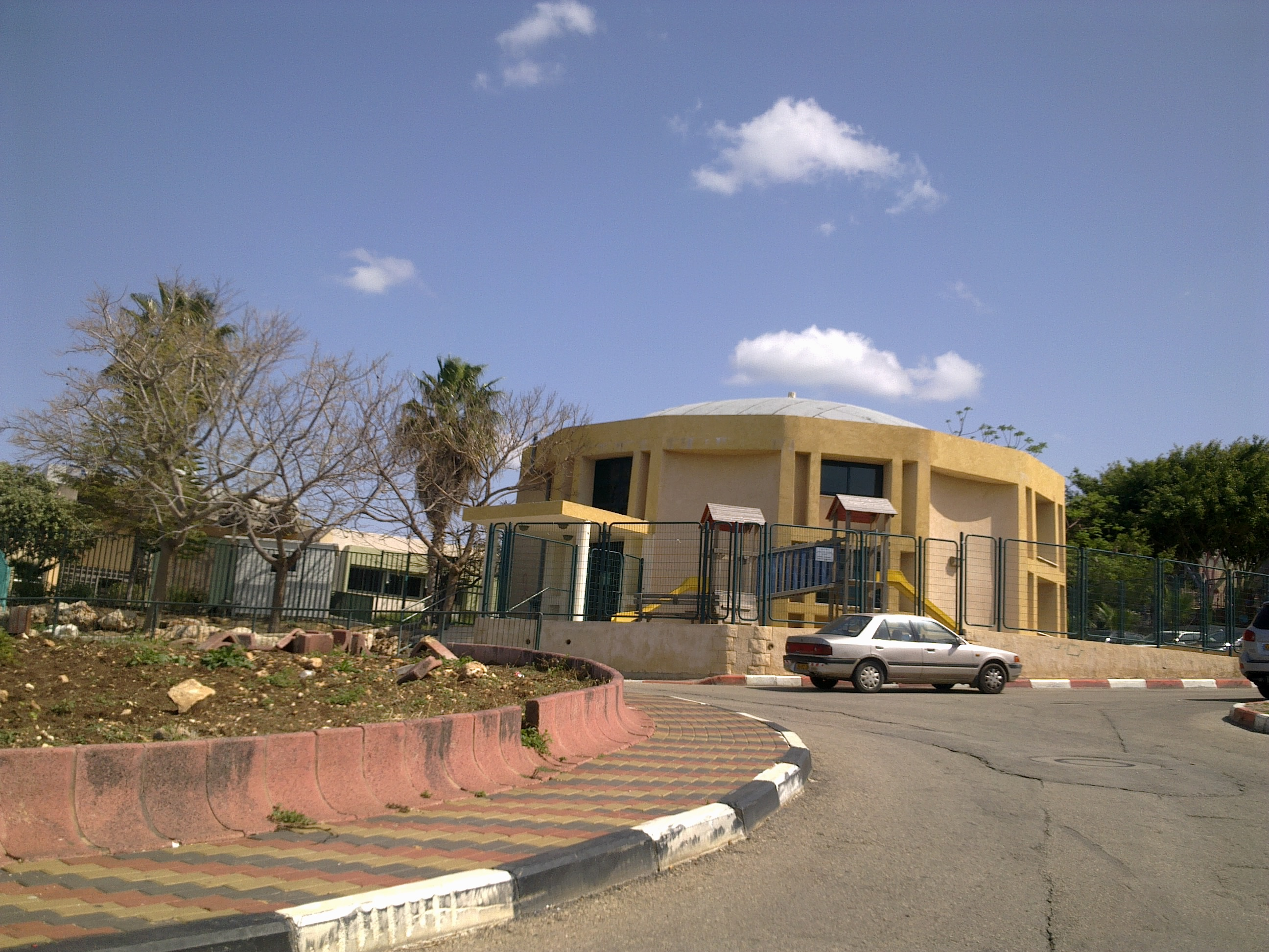 school in Sheikh Danun בית הספר המקיף "השלום" בשייח דנון